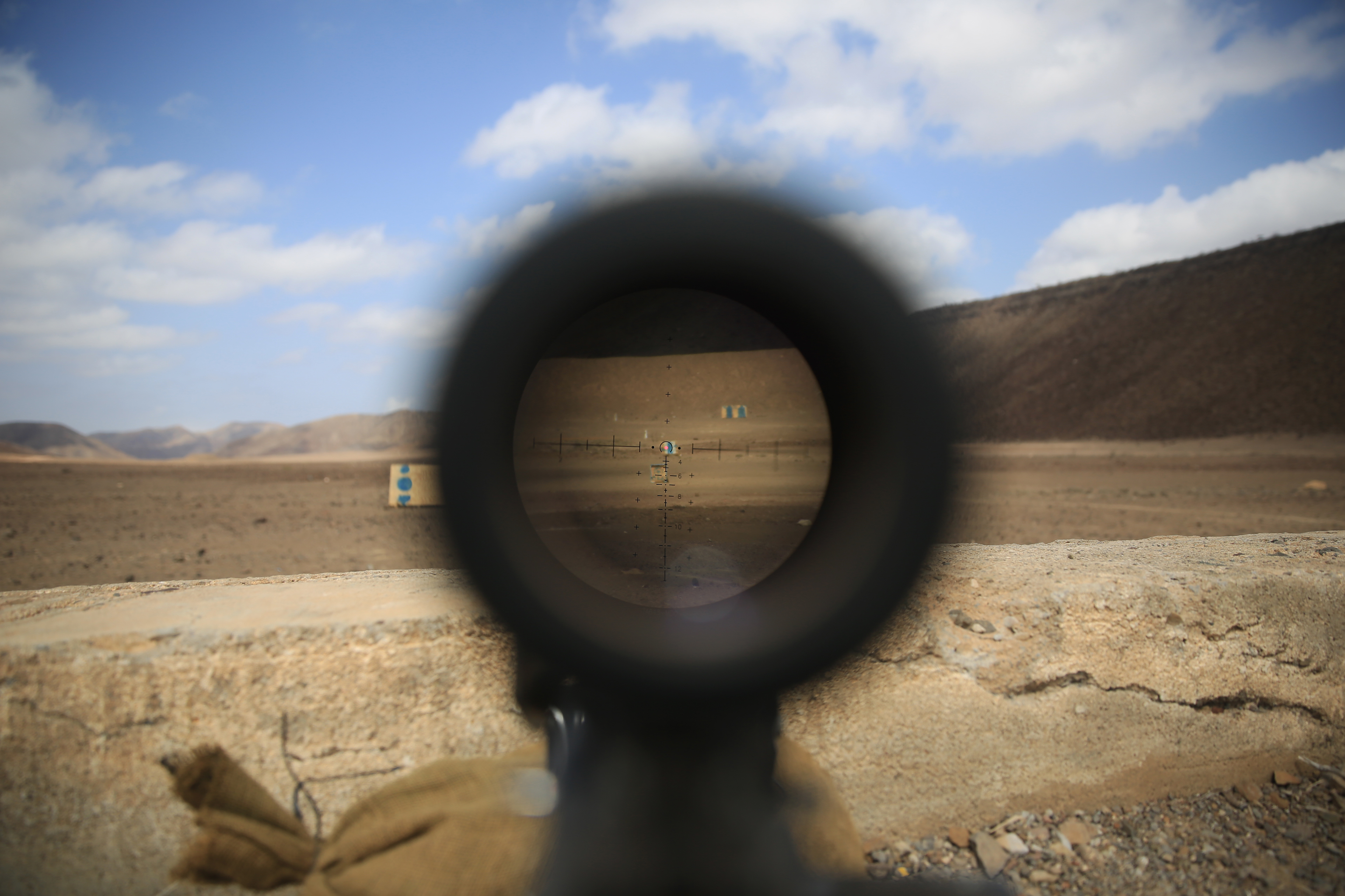 The view from a Marine with Headquarters and Service Company, Battalion Landing Team 3rd Battalion, 6th Marine Regiment, 24th Marine Expeditionary Unit, as he sights through a machine gun optic attached to an M240B machine gun during a live-fire exercise in Djibouti, March 10, 2015. A contingent of the MEU was ashore in Djibouti conducting sustainment training to maintain proficiency. The 24th MEU is embarked on the Iwo Jima Amphibious Ready Group and deployed to maintain regional security in the U.S. 5th Fleet area of operations. (U.S. Marine Corps photo by Lance Cpl. Dani A. Zunun/Released)